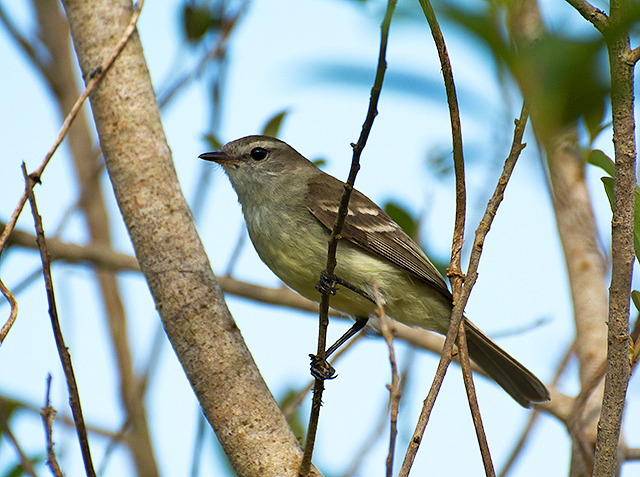 Mouse-colored Tyrannulet